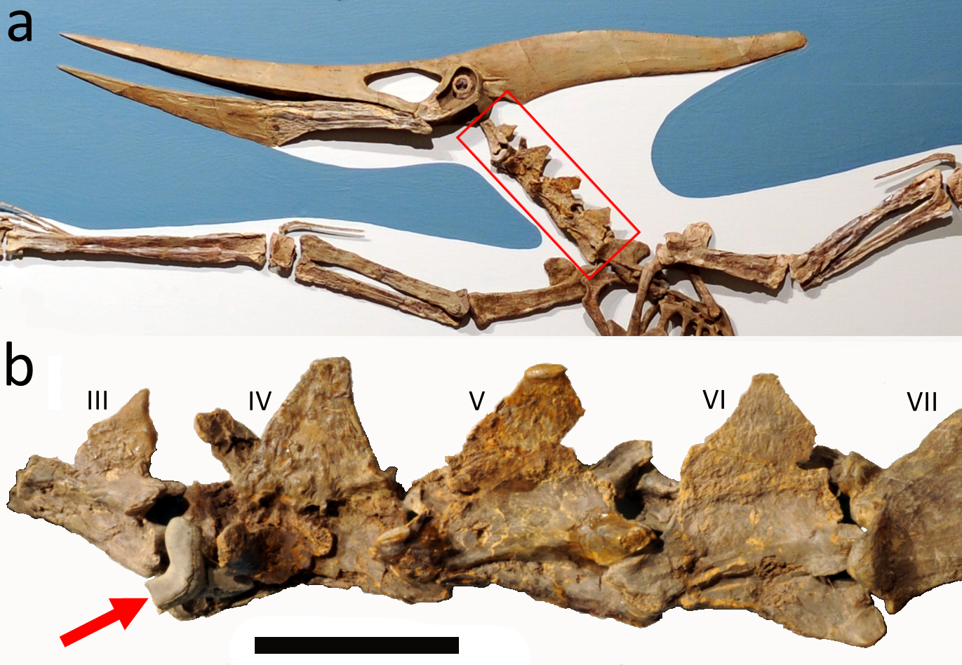 Mounted Pteranodon and close up of the neck. (A) mounted Pteranodon sp. skeleton LACM 50926 on display in the Los Angeles county museum with highlighted section of the vertebrae shown below; (B) Close up of the vertebral series and shark tooth (indicated by an arrow). Cervical vertebrae III–VII are indicated. Scale bar is 50 mm—this is an approximate value based on published measurements of the vertebrae. Image credit: (A) Stephanie Abramowicz, courtesy Dinosaur Institute, Natural History Museum of Los Angeles County, (B) David Hone.